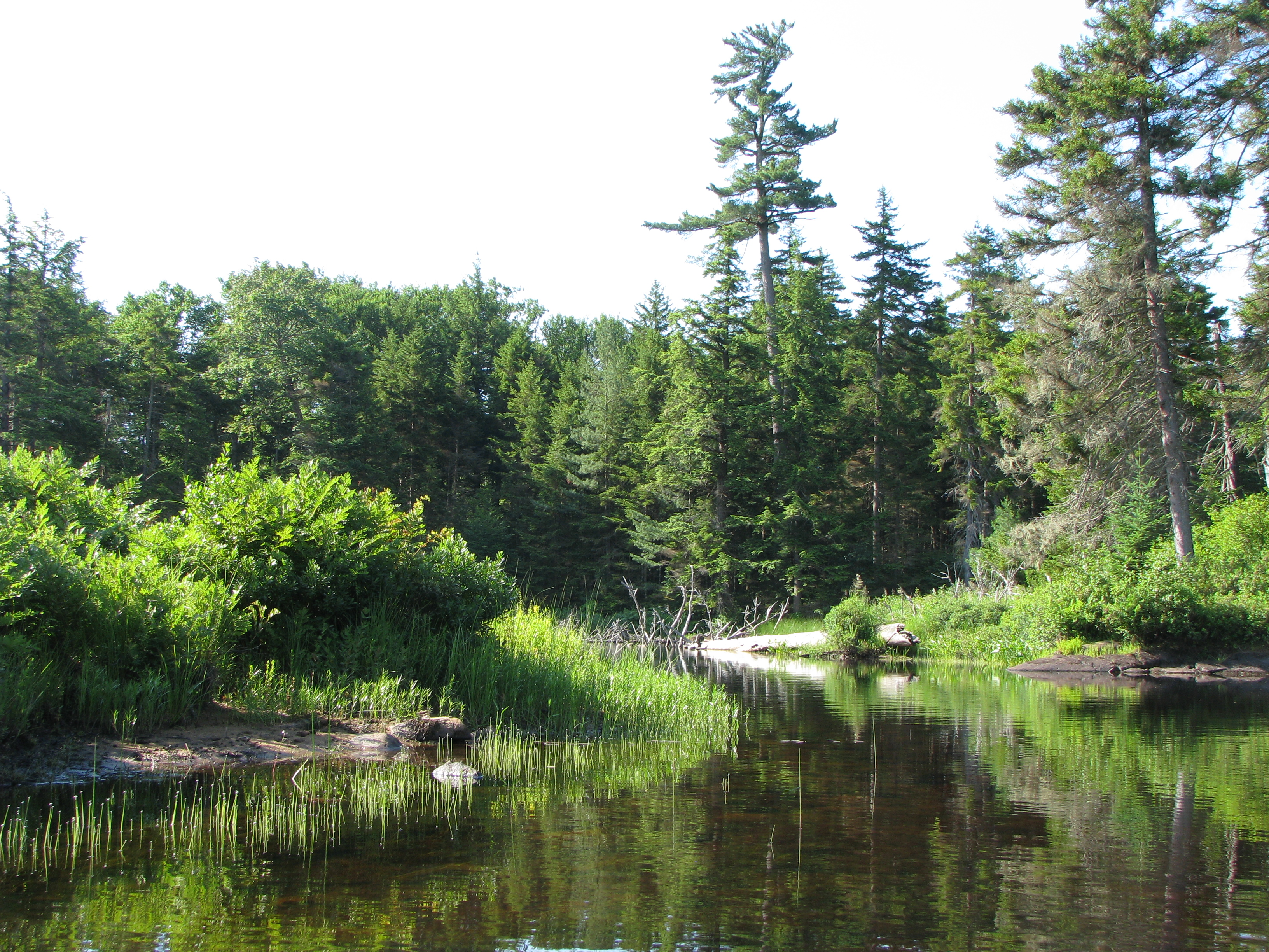 Beaver River near Lake Lila, Adirondack Park, Town of Long Lake, NY, USA